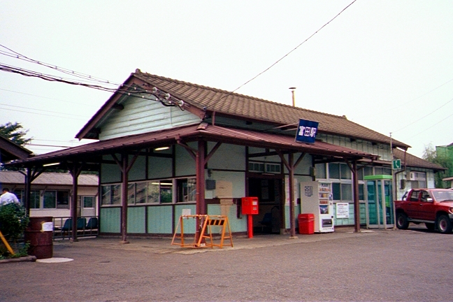 Tomita Station on the JR East Ryomo Line before rebuilding